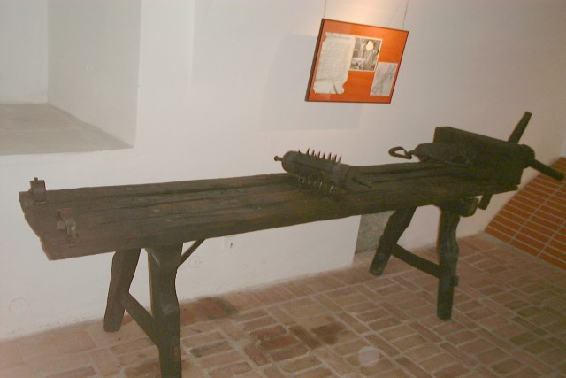 Poland, Zywiec - Museum of Torture - torture bed (so called Madejowe Łoże).